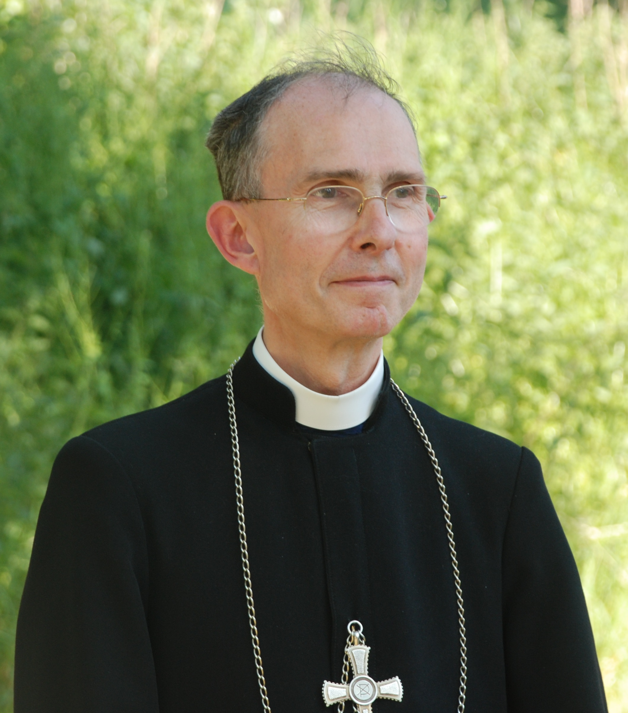 Bishop Bernard Tissier de Mallerais